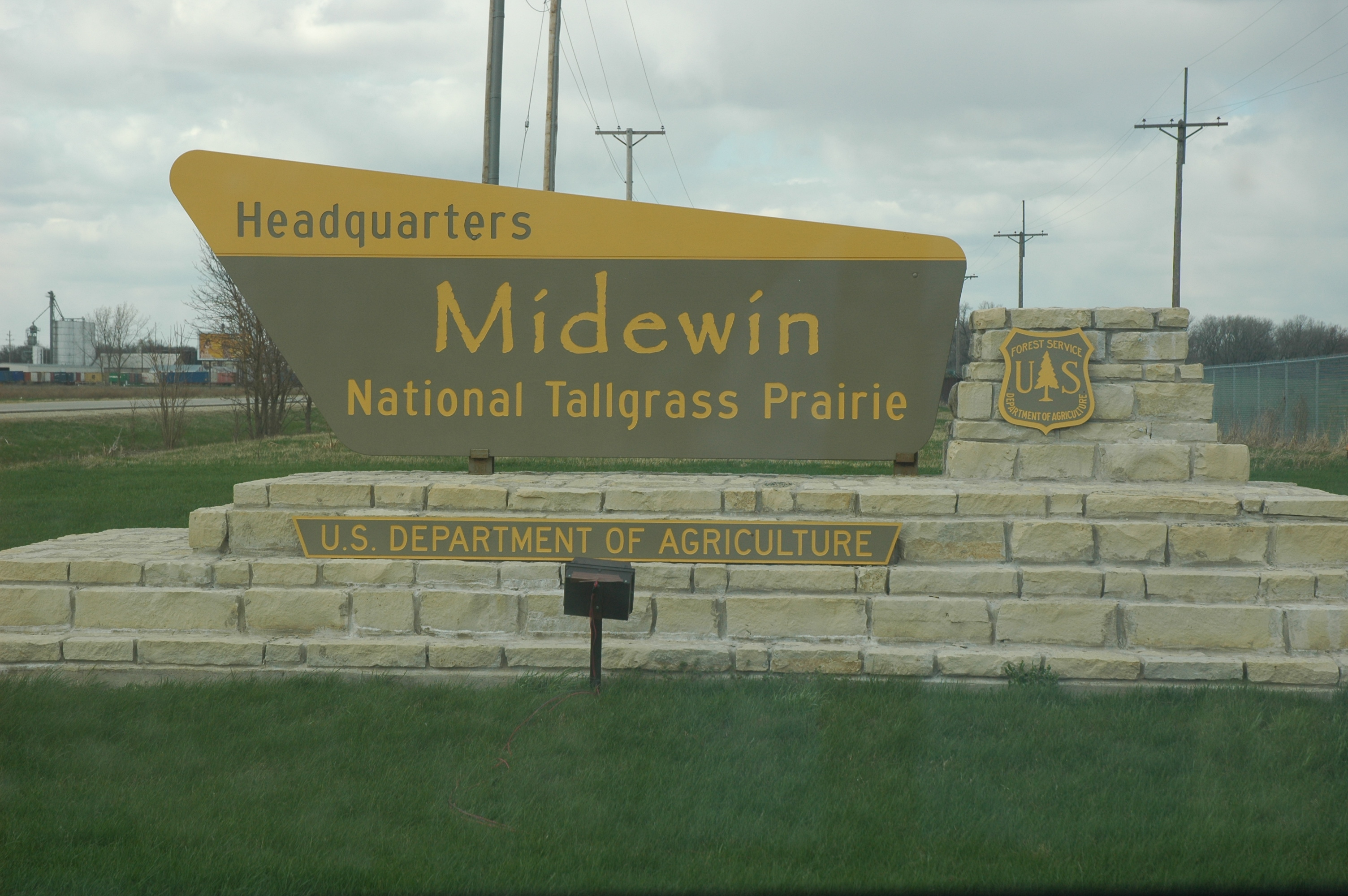 Entrance to the Midewin National Tallgrass Prairie headquarters on Illinois Route 53 / former U.S. Route 66.